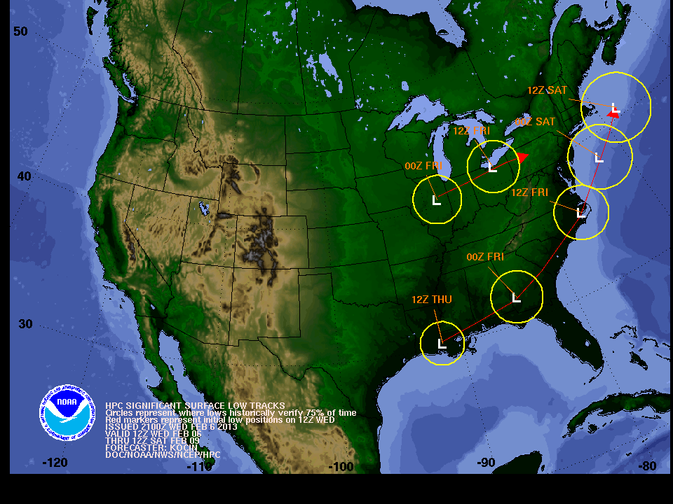 Weather Prediction Center's (then Hydrometeorological Prediction Center) low-pressure area forecast on February 7, 2013, anticipating the development of two systems tracking into the northeastern United States.